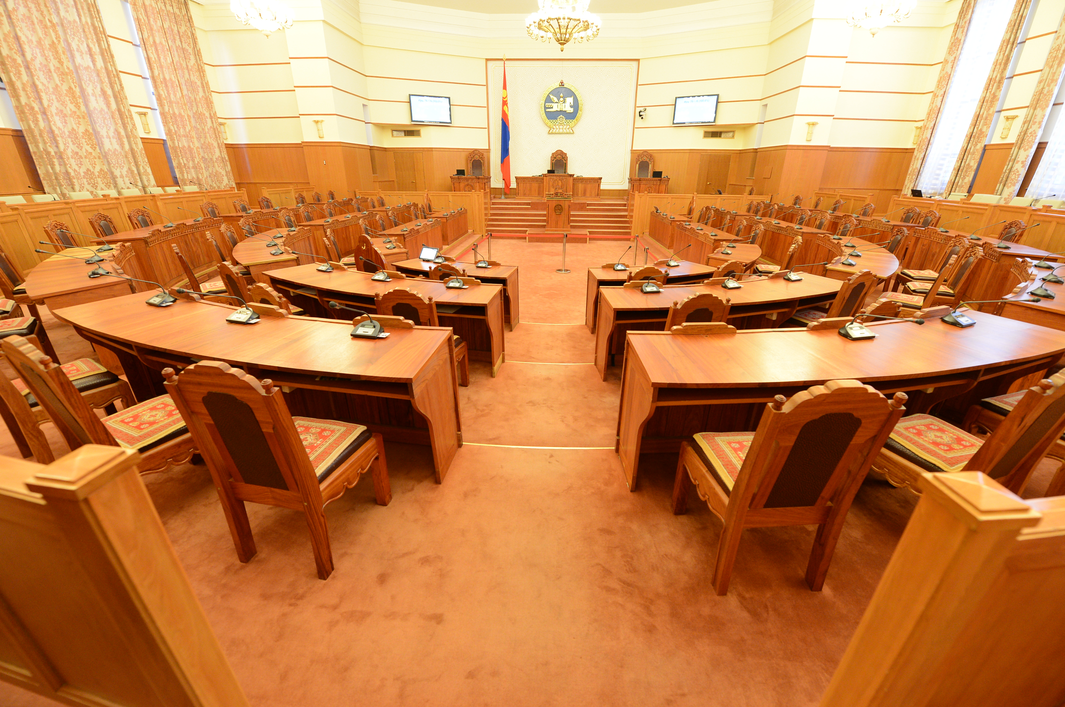 Монгол Улсын Их Хурлын чуулганы нэгдсэн хуралдааны танхим